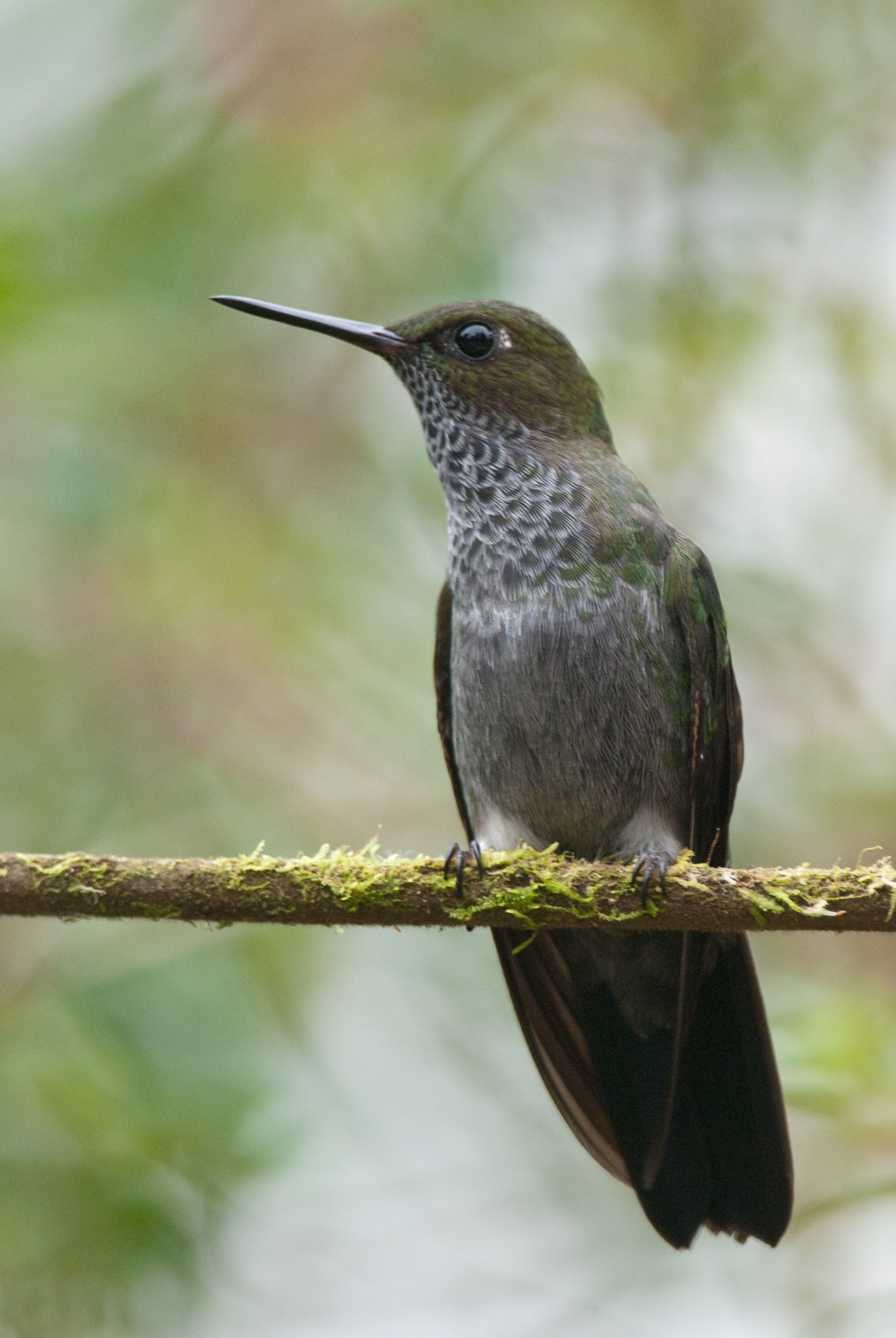 A Hoary Puffleg Haplophaedia lugens hummingbird at Reserva Las Gralerias, Ecuador.